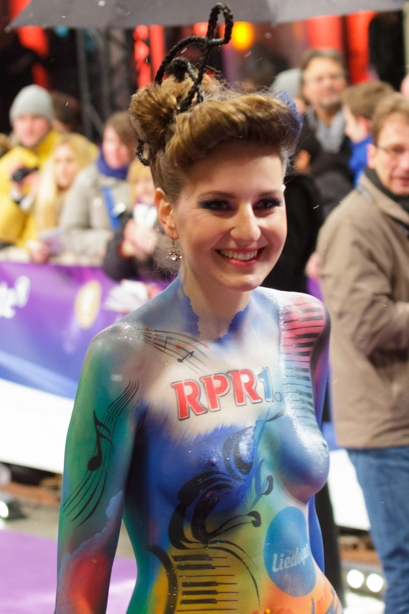 Showgirl RPR1 at the Echo music award 2013